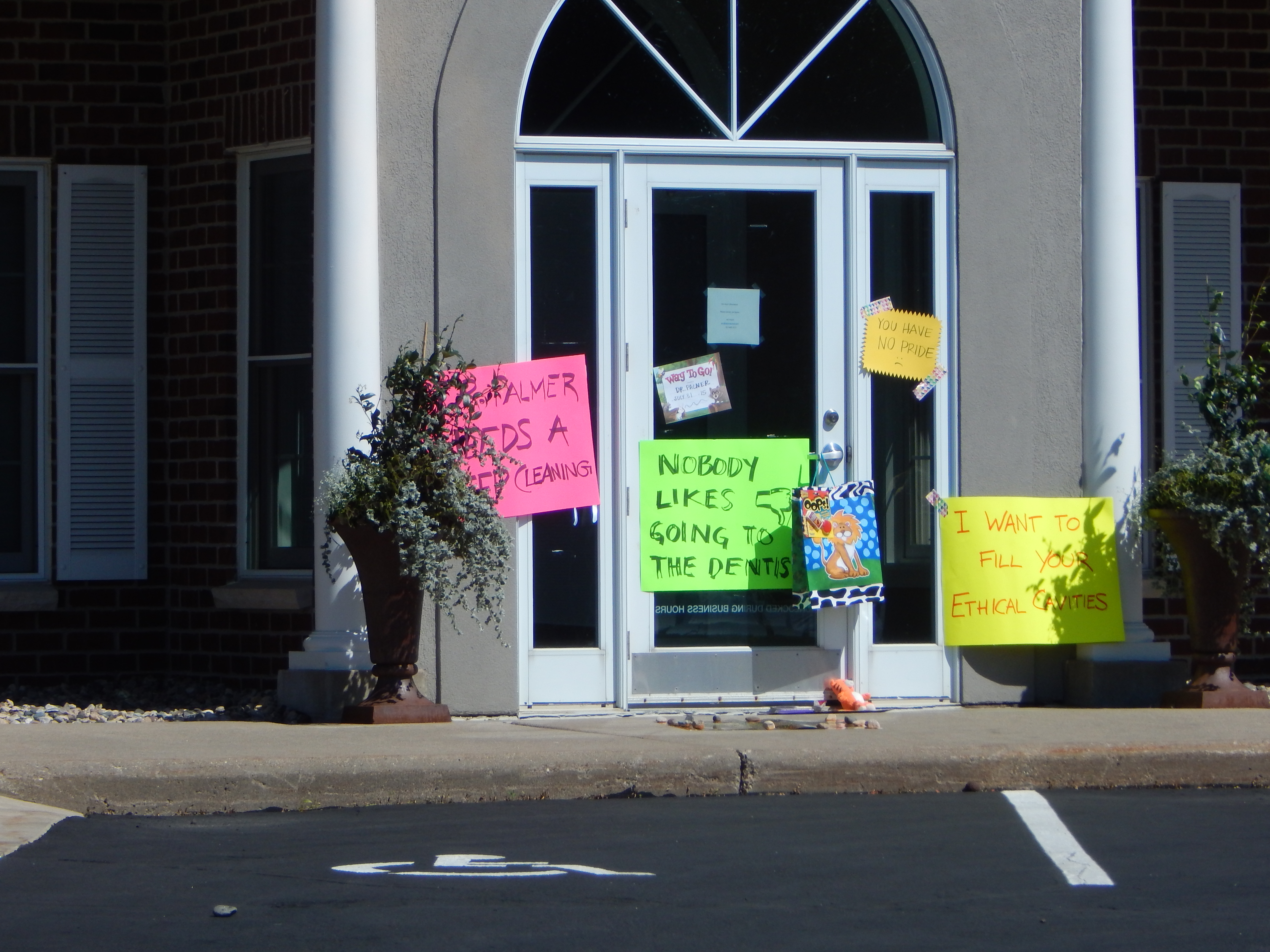 The dental practice of Walter Palmer, the dentist who killed Cecil the Lion. Taken on 31 July 2015.